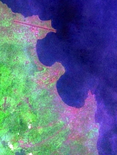 Satellite image of the city of São Tomé, capital of São Tomé and Príncipe. Geocover 2000 image set.